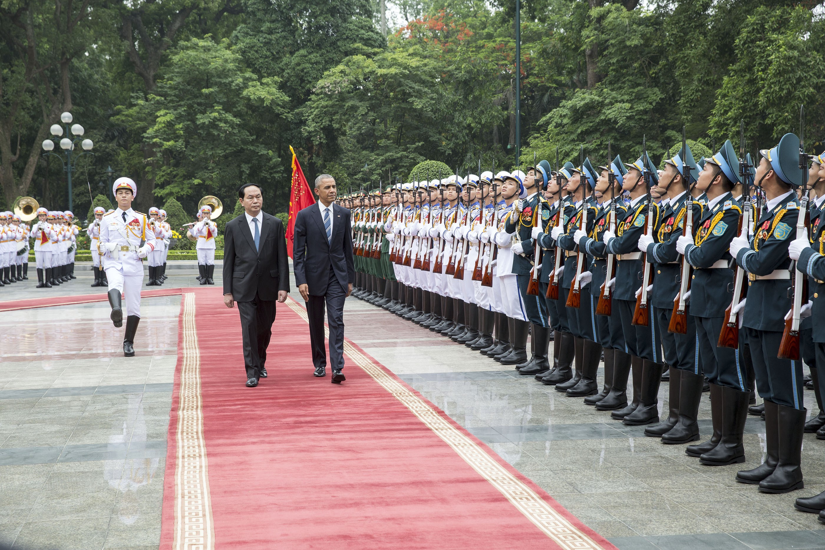 President Barack Obama and President Tran Dai Quang review the honor guard during the arrival ceremony at the Presidential Palace in Hanoi, Vietnam, May 23, 2016. (Official White House Photo by Pete Souza)